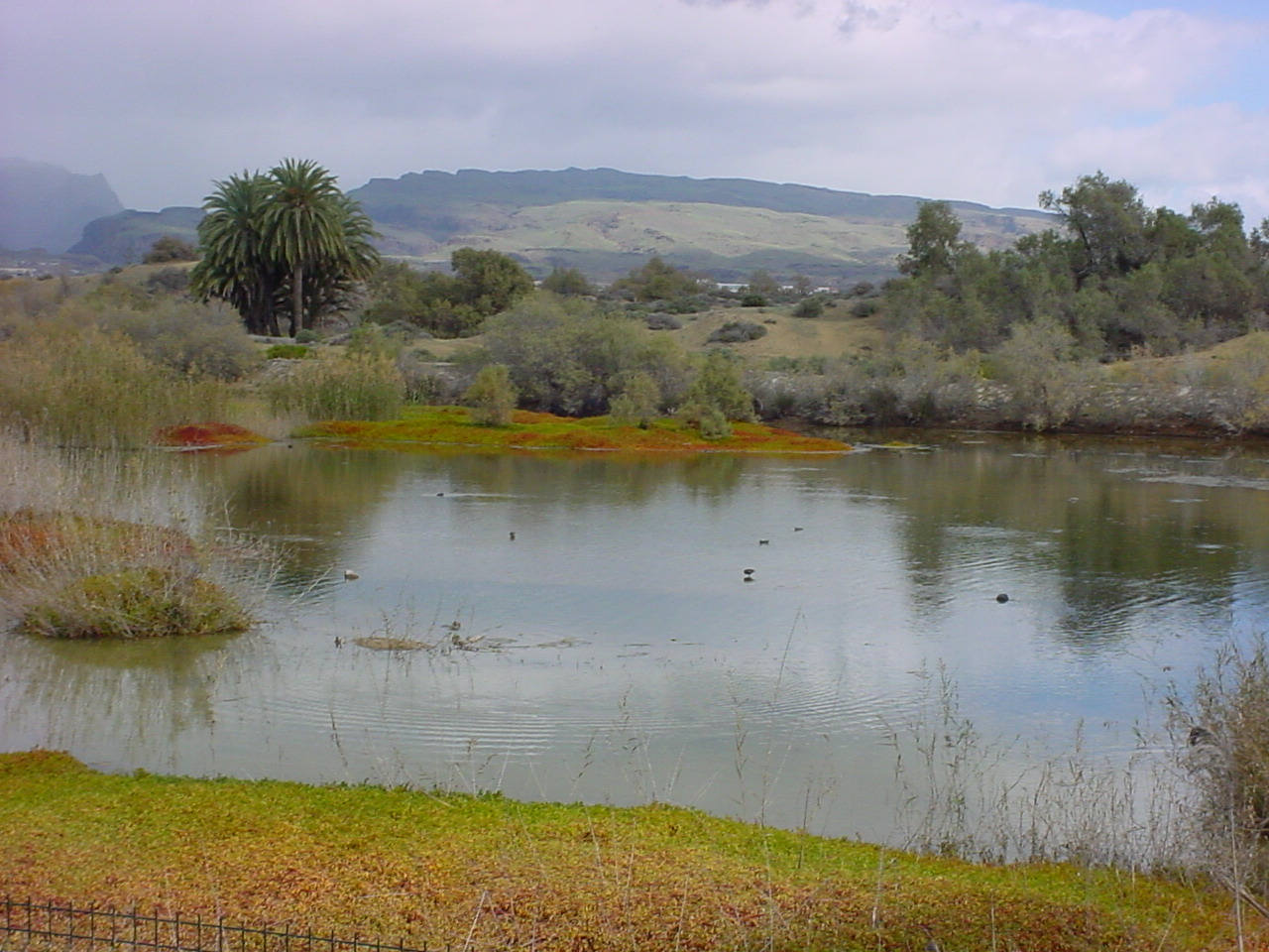 The nature reserve of Charca de Maspalomas, Gran Canaria